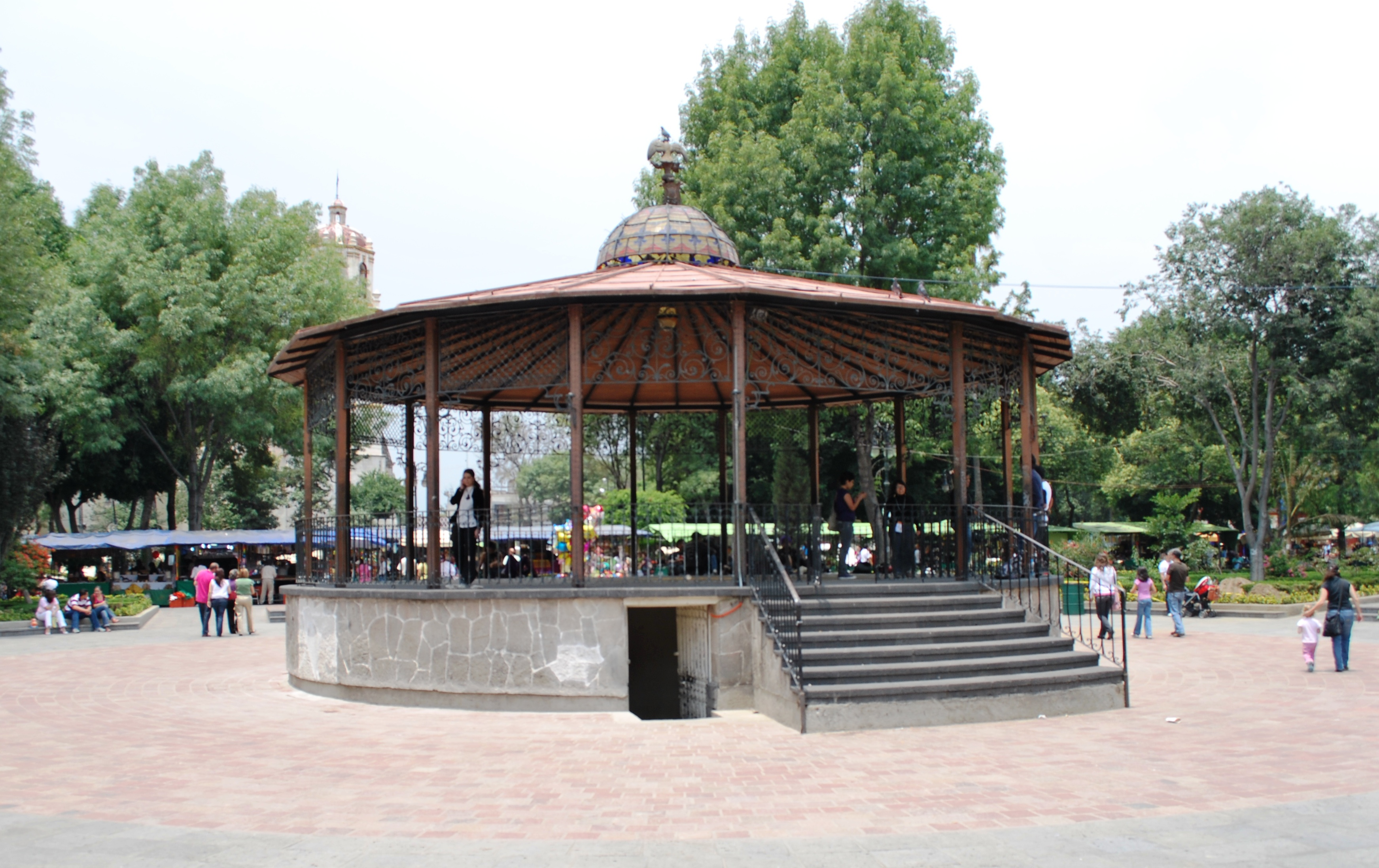 Kiosk in the middle of Plaza Hidalgo in the Coyoacan borough of Mexico City.